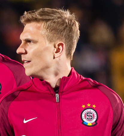 «Ростов» - «Спарта» (16.02.2017)